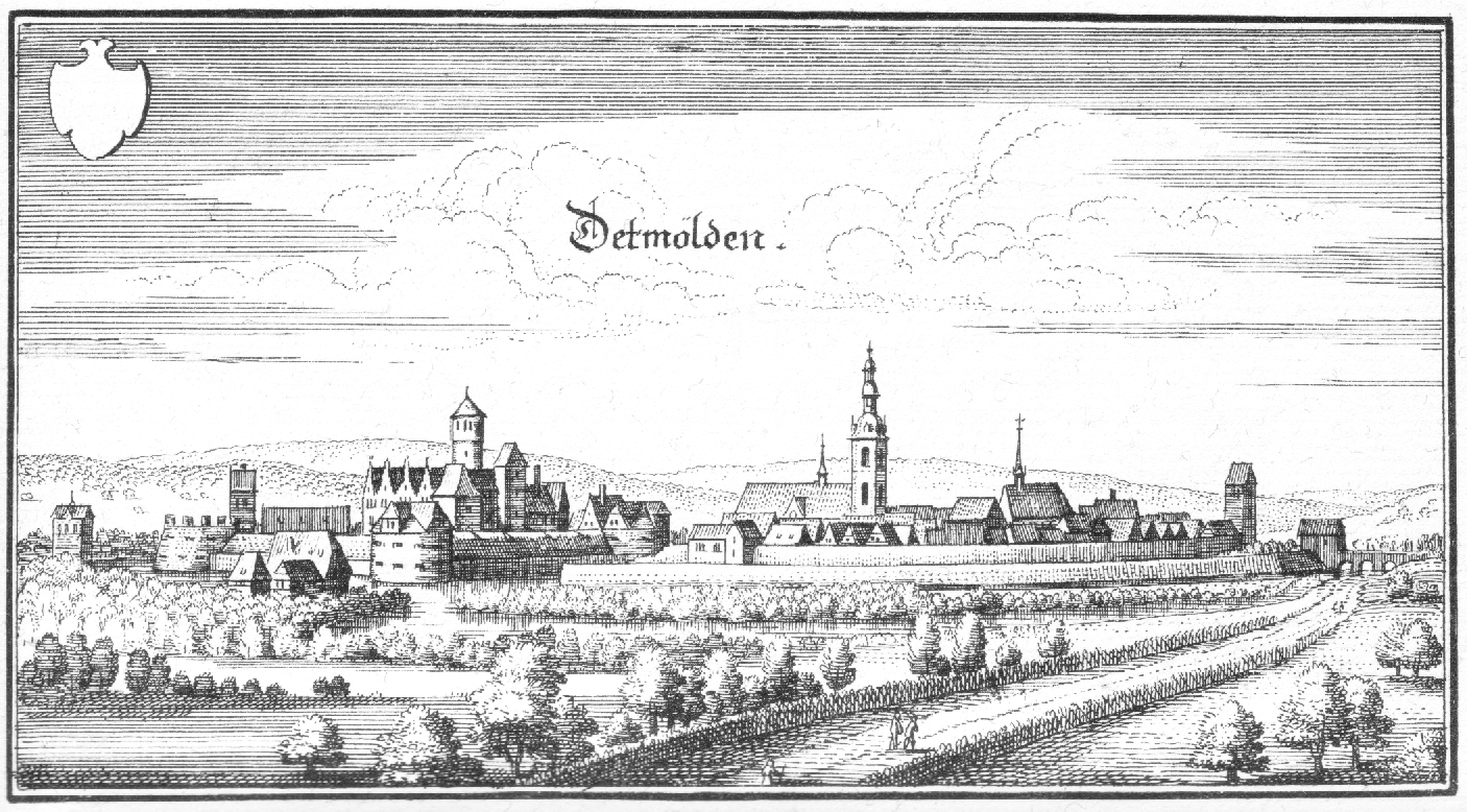 Copper-engraving of the view on Detmold by Matthäus Merian. Published in "Topographia Germaniae" edition: "Topographia Westphaliae" in 1647 .